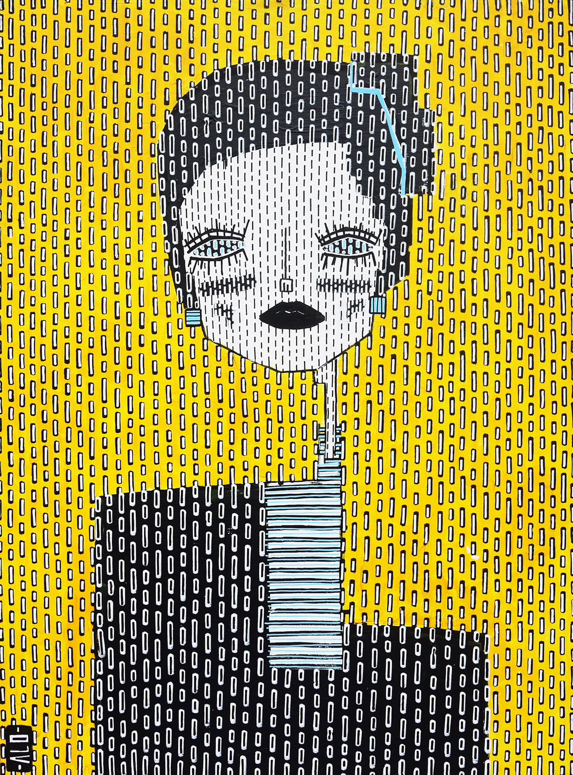 Acrylic and mixed media on wood board